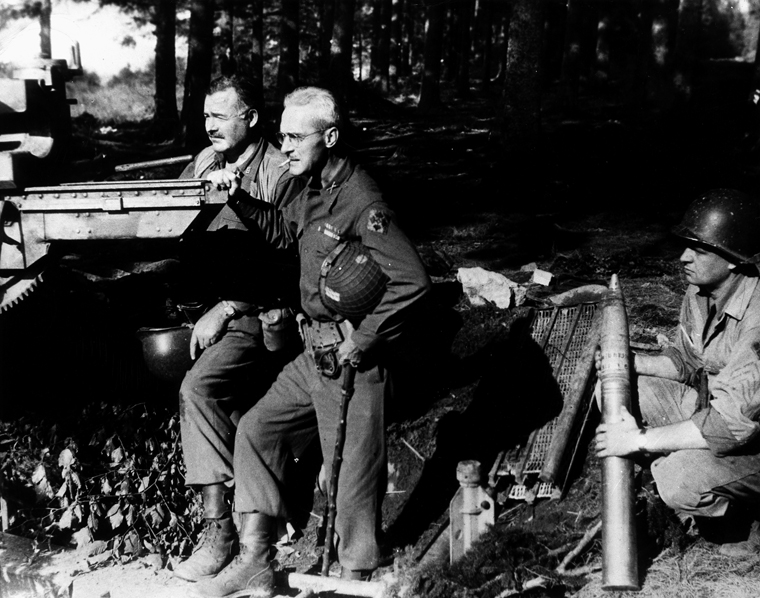 Ernest Hemingway and Colonel Charles T. "Buck" Lanham with captured artillery in Schweiler, Germany, 18 September 1944.